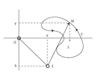 picture to show theprinciple of the polar planimeter